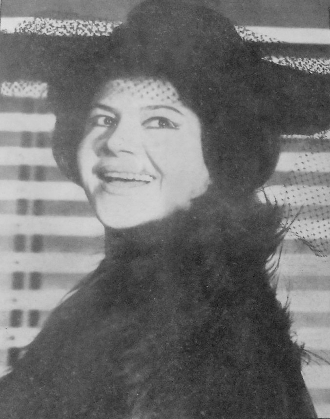 Mira Stupica, Ilustrovana politika